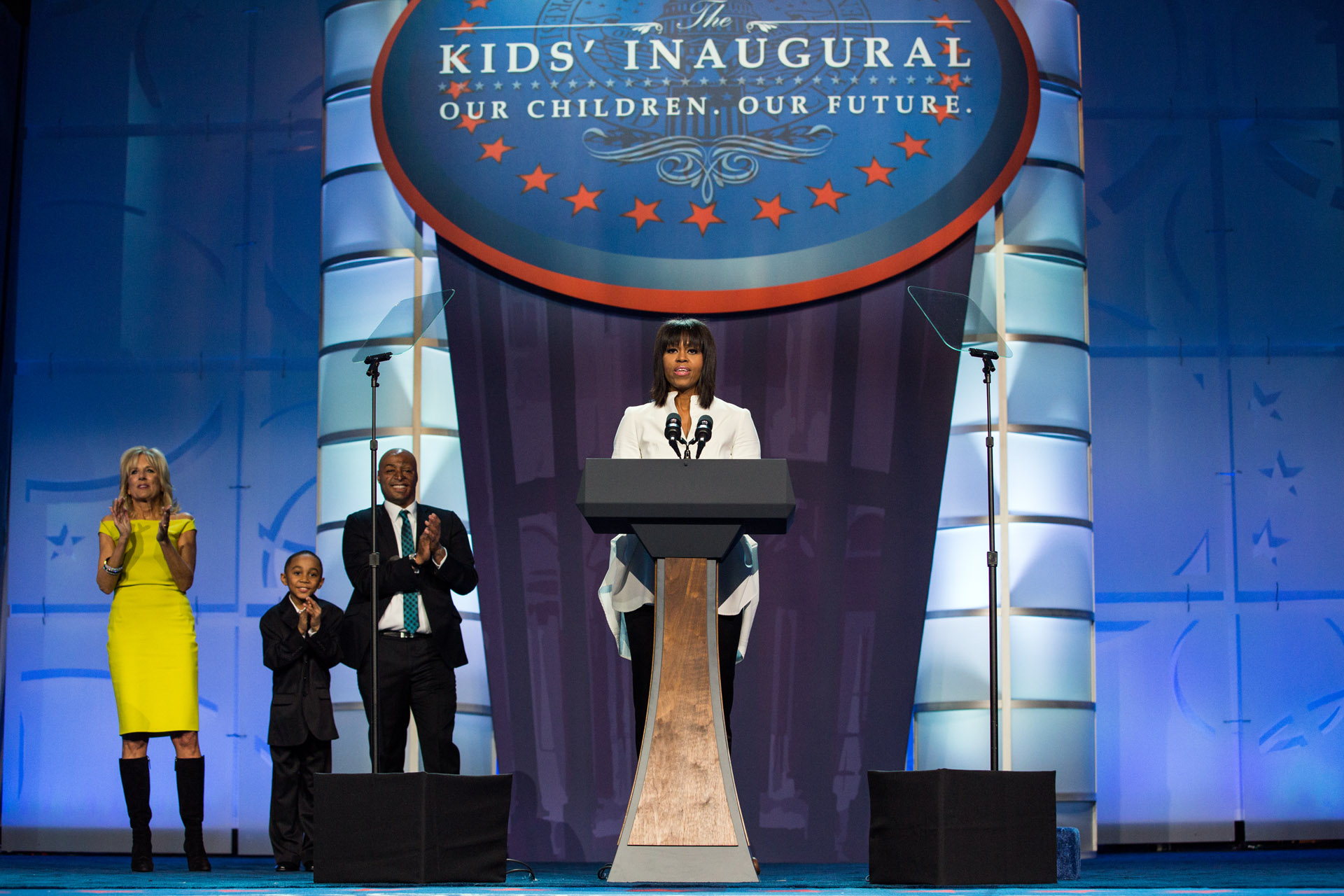 First Lady Michelle Obama delivers remarks during the Kids' Inaugural Concert on January 19, 2013 at the Walter E. Washington Convention Center in Washington, D.C. Dr. Jill Biden, wife of Vice President Joe Biden, stands to the left in the background.